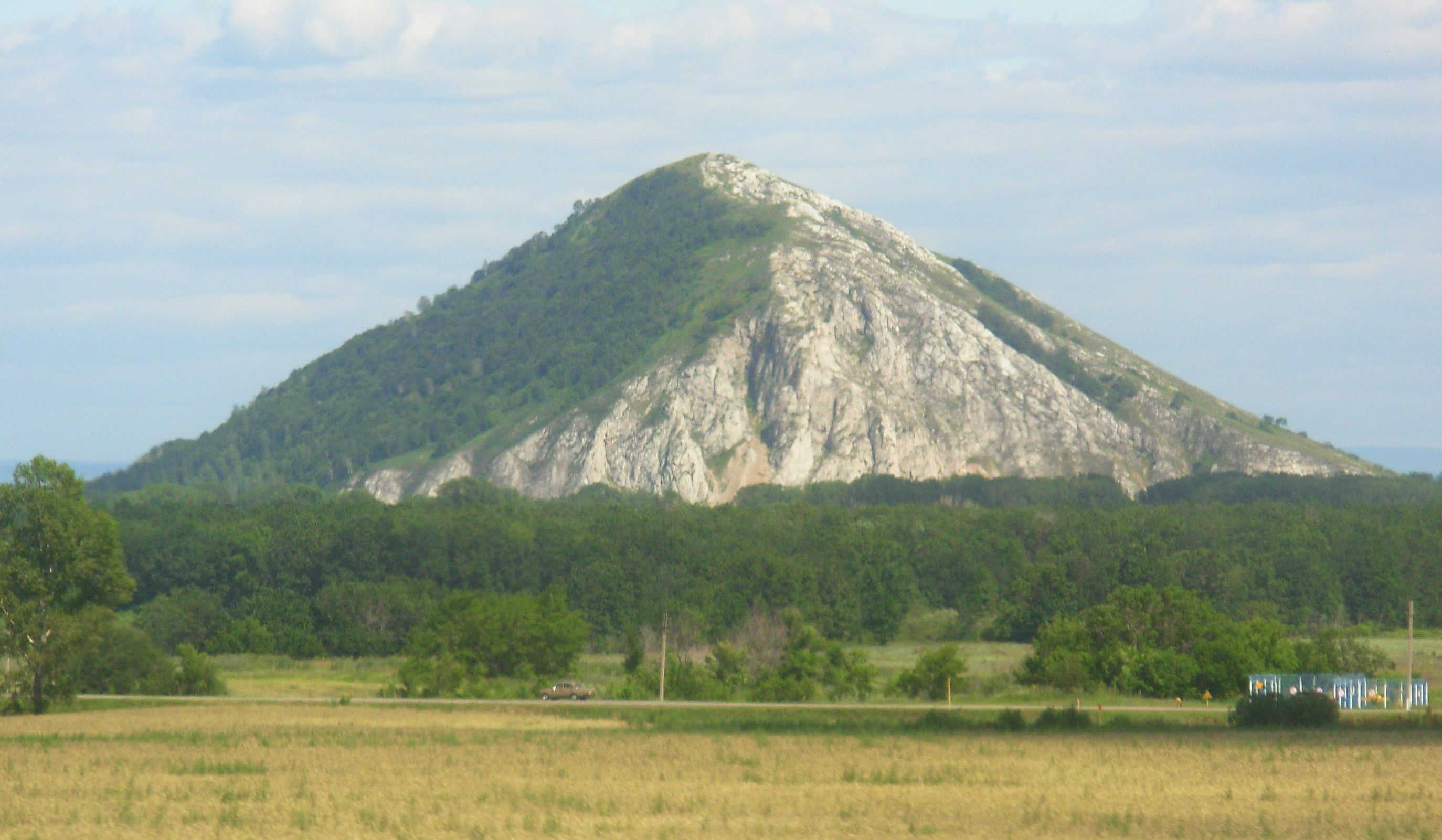 shihan Yuraktau